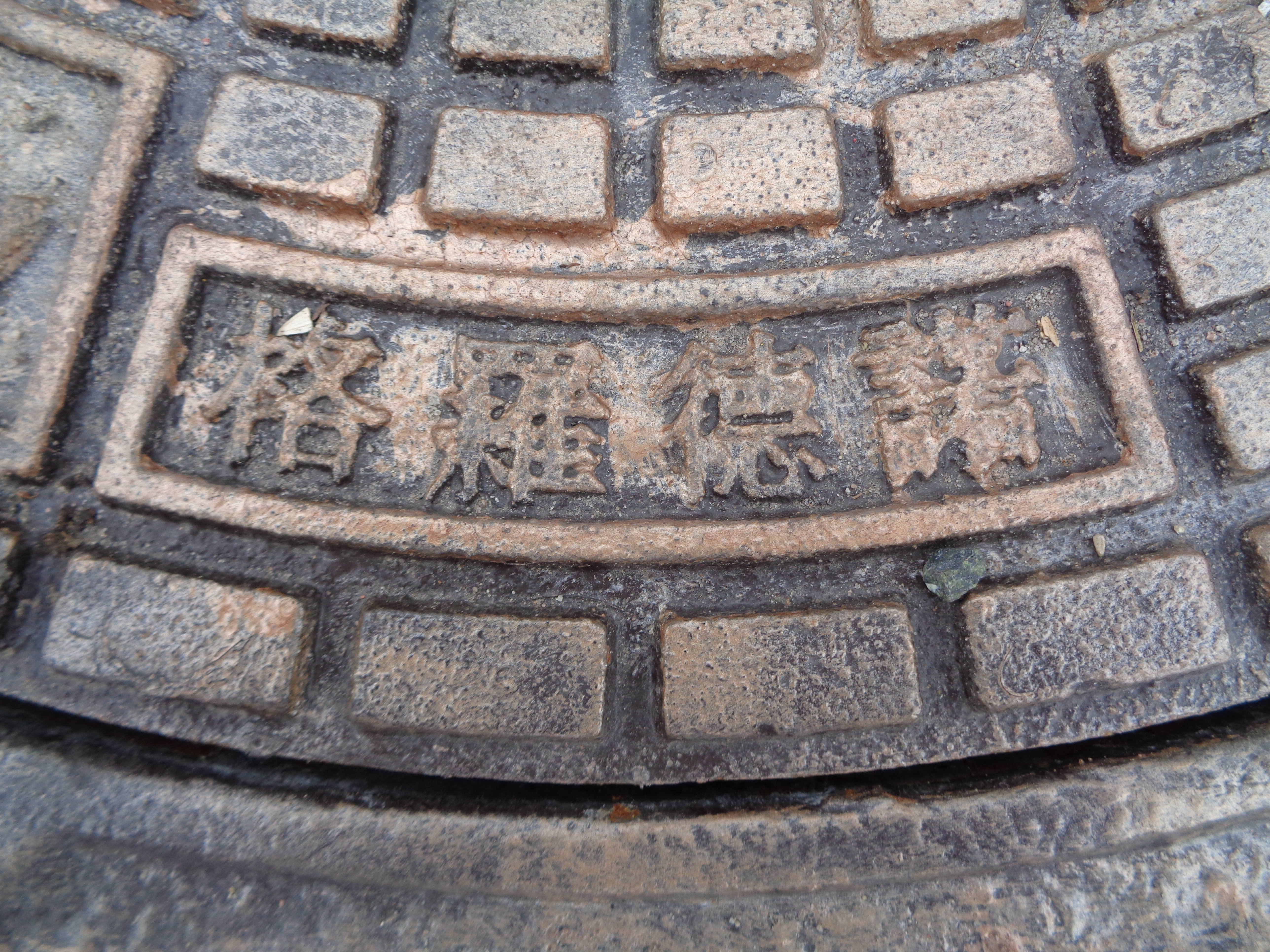 New manhole cover with the name of the Belarusian city of Grodno in Chinese, 格罗德诺, City Center, Saviecka St, 20 June 2018